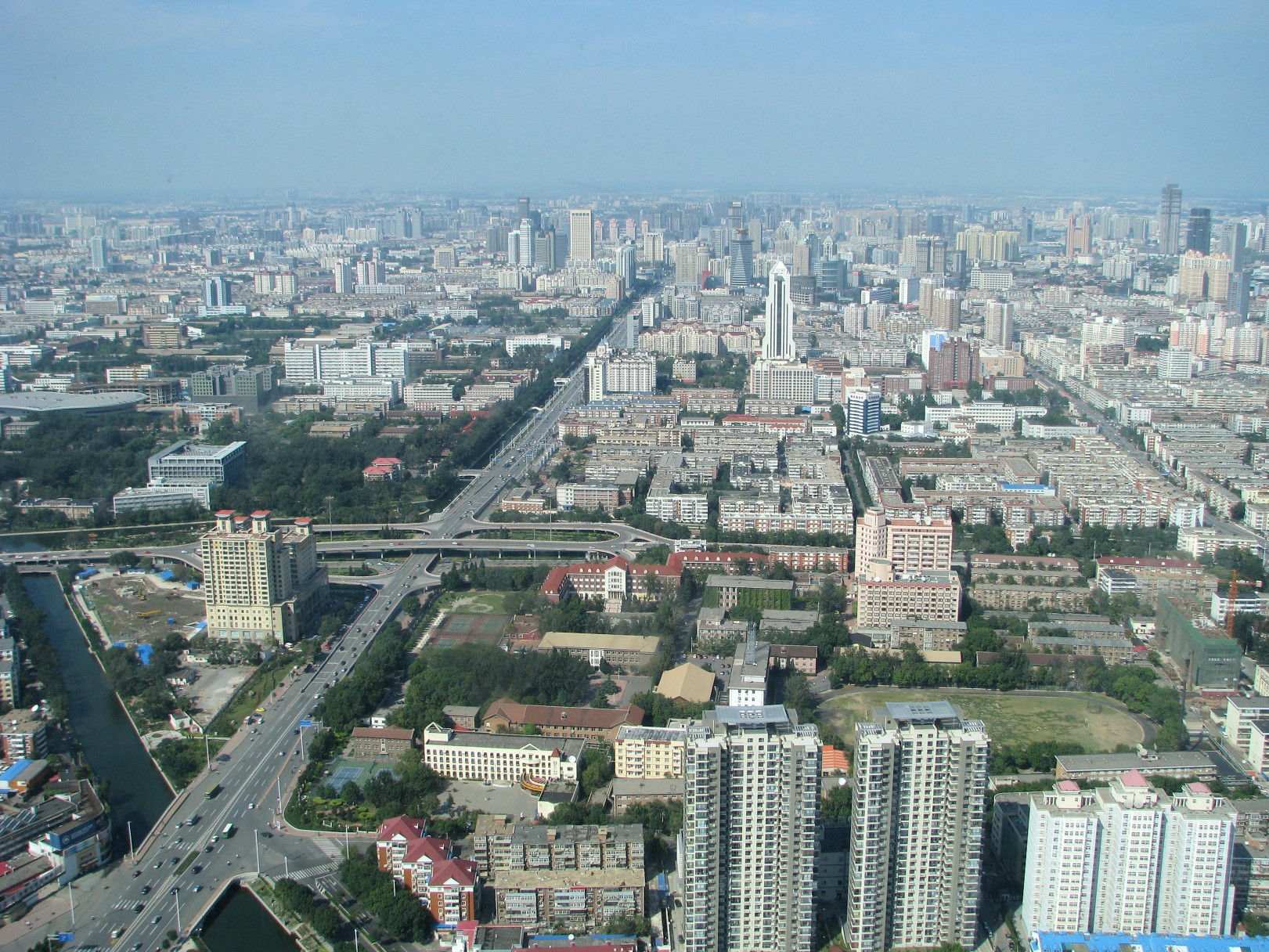 view from Tianjin TV tower, direction North along Weijing Rd